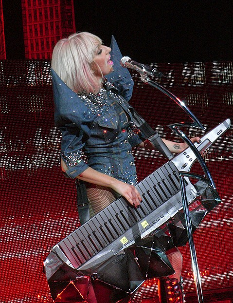 Lady Gaga performing "Money Honey" on The Fame Ball Tour at Brixton Academy, London.